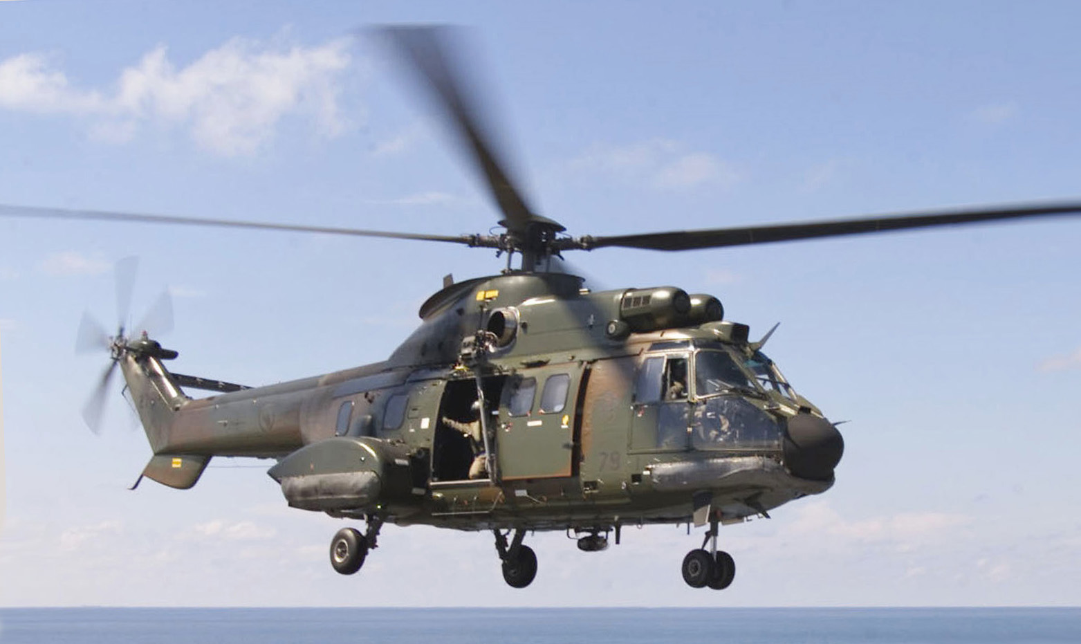 An AS 332 Super Puma helicopter from the Republic of Singapore Air Force is guided to the flight deck of USS Inchon (MCS-12) on 13 June 2001. The Singapore Air Force conducted deck landing qualification aboard the USS Inchon during the 1st Western Pacific Mine Countermeasures Exercise (MCMEX) 2001. MCMEX involved 14 countries, in an effort to maintain safe navigation of international waterways by using mine hunting and disposal techniques of the participating navies. Hosted by Singapore, the exercise includes participants from Australia, China, France, India, Indonesia, Japan, Malaysia, Papua New Guinea, Russia, Singapore, South Korea, Thailand, United States, and Vietnam.